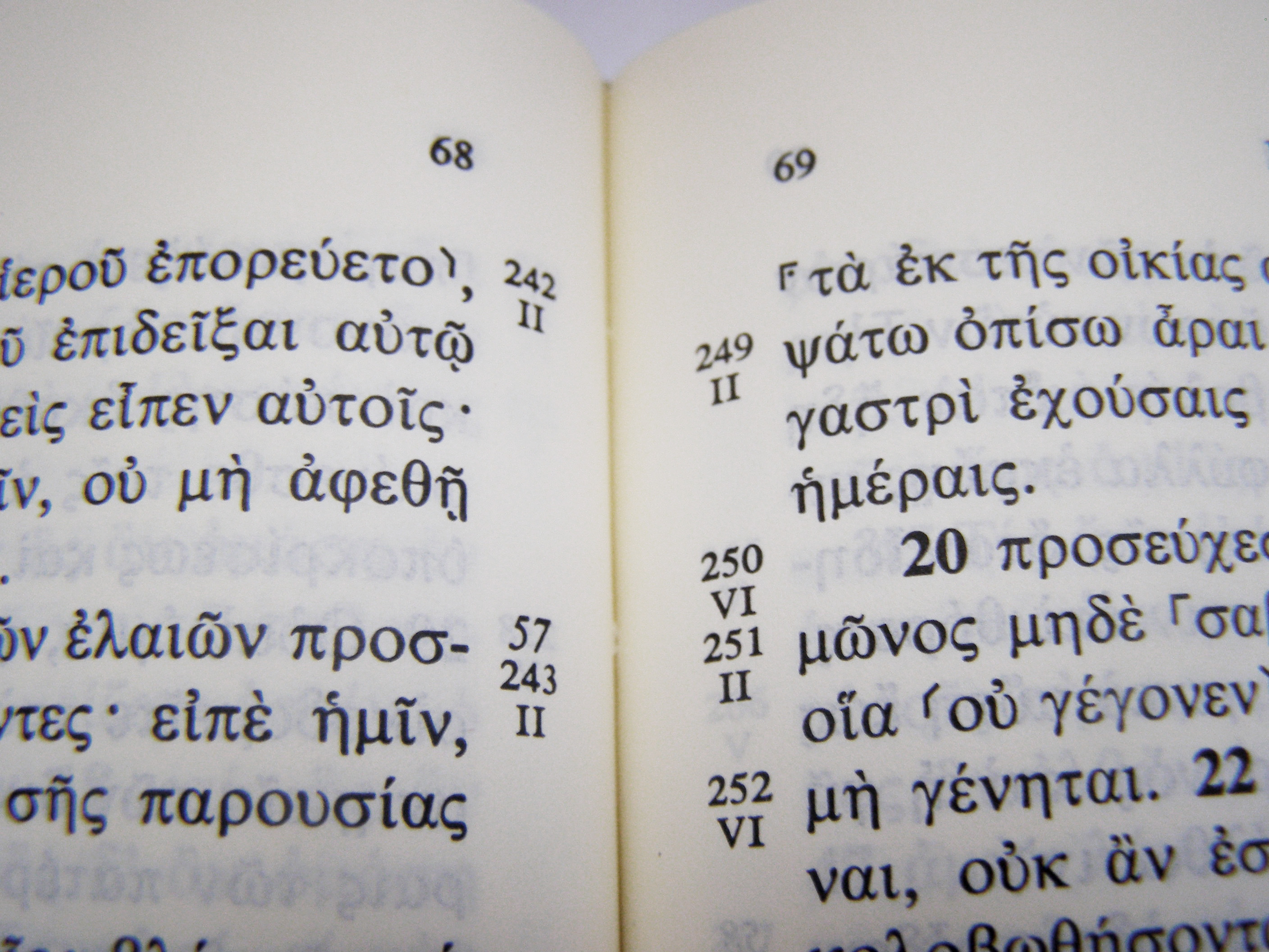 Nestle-Aland, Novum Testamentum Graece, edition 27. The Ammonian section numbering is noted in the margin. Below it, a Roman number refers to one of the ten Eusebian Canons, where references to parallel sections in the other gospels can be found.